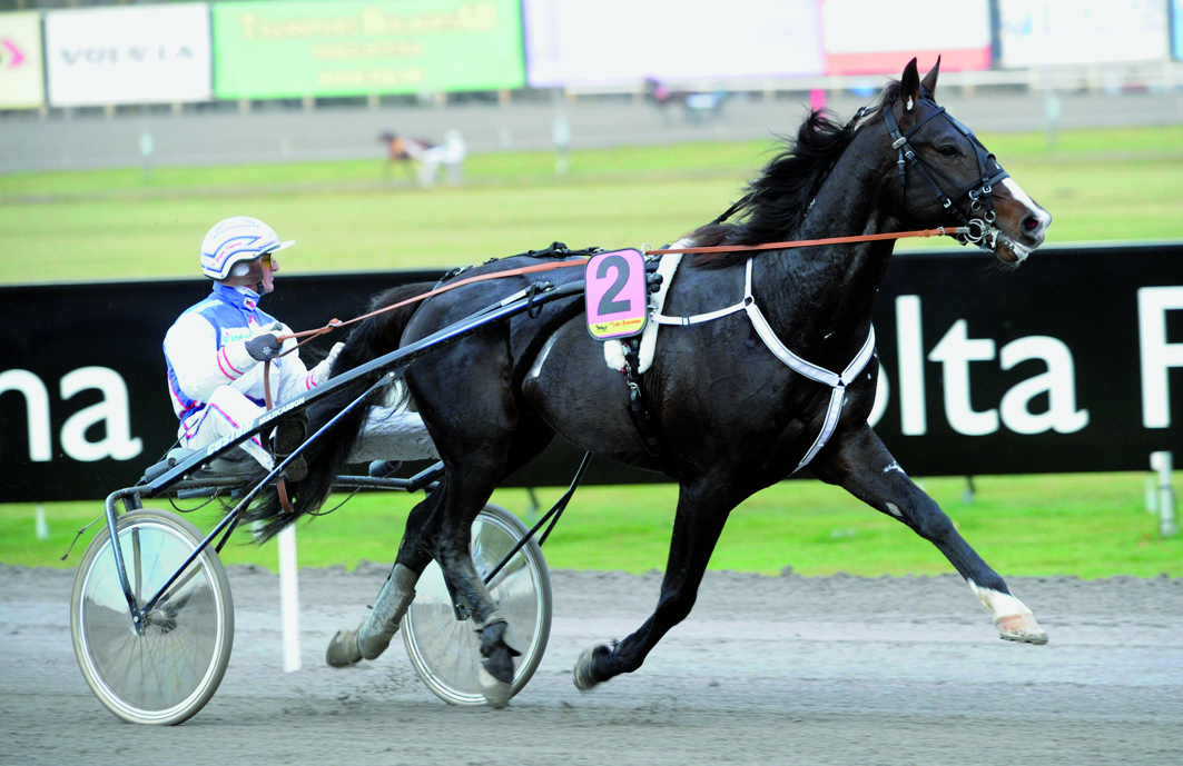 Trotting horse Pato and driver Peter Ingves.